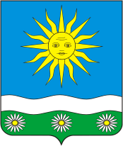 Otradnenskoe (Krasnodar krai), coat of arms